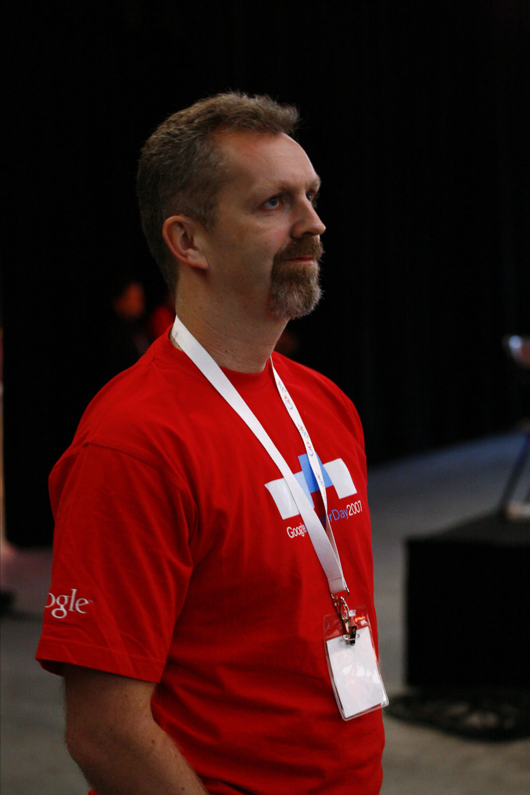 Lars Rasmussen, one of the founding fathers of Google Maps, at Google Developer Day Australia — Australian Technology Park.